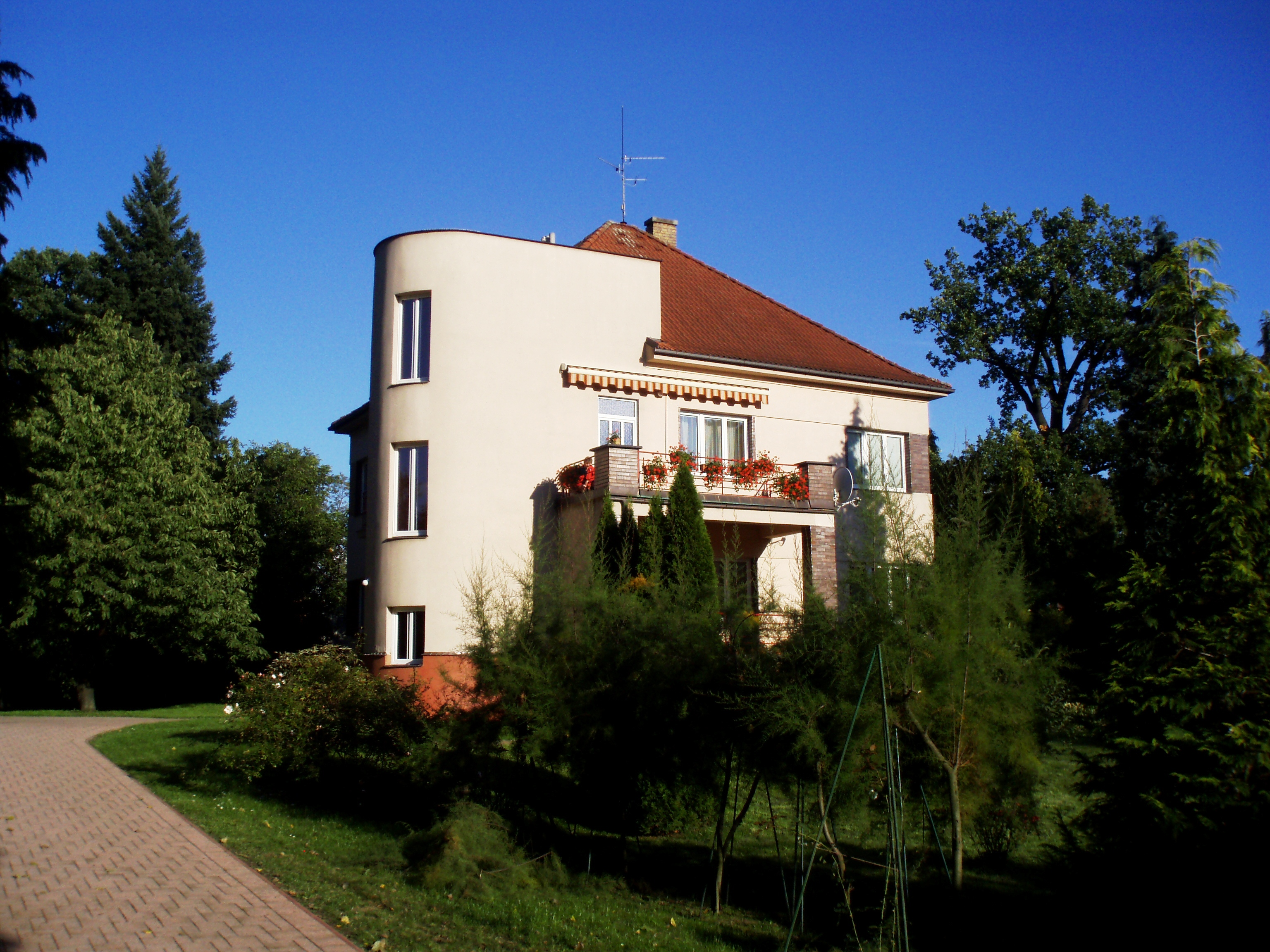 House Nr 478 in Street Úprkova in Hradec Králové (Czechia)